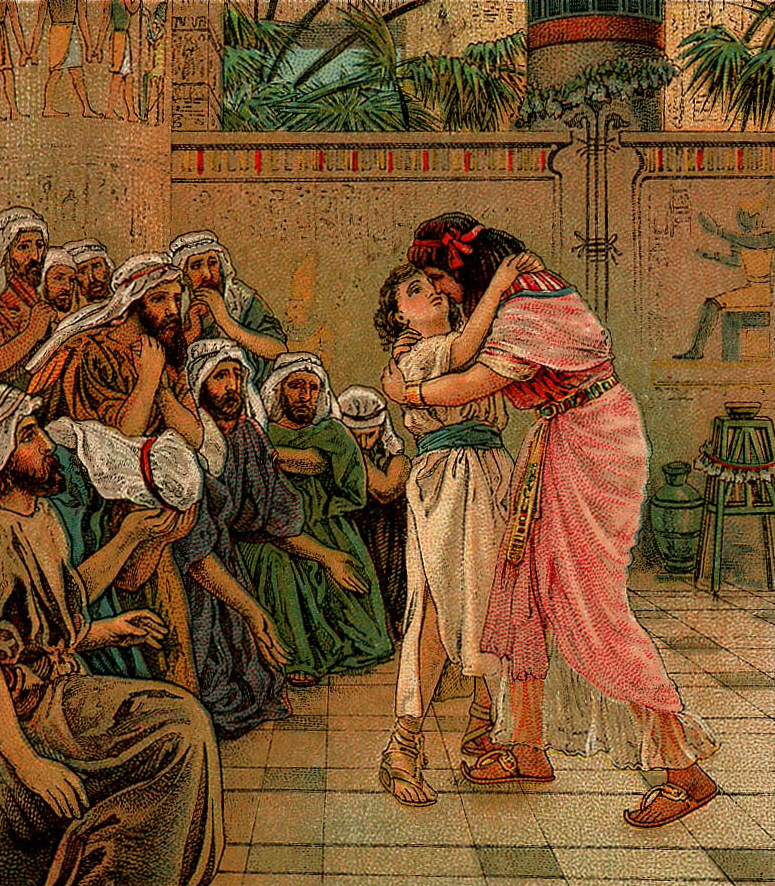 Joseph Forgives His Brothers, as in Genesis 45:1-15 and 50:15-21, illustration from a Bible card published by the Providence Lithograph Company